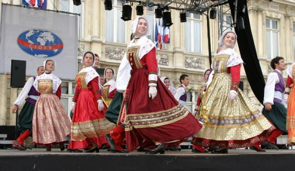 Bleuniadur, Folk Art Ensemble from Brittany (France)